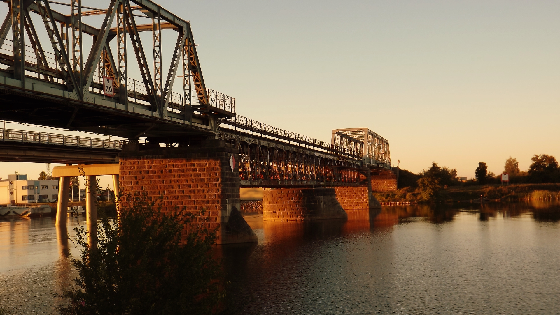 Ventspils